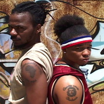 Image of Cuban rap duo Anónimo Consejo